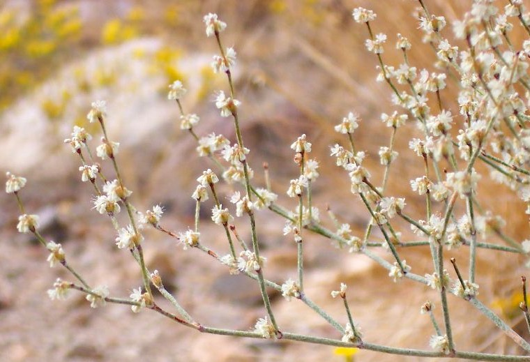 Eriogonum baileyi Courtesy of USDI BLM. United States, CA, Inyo Co.. October 2003.